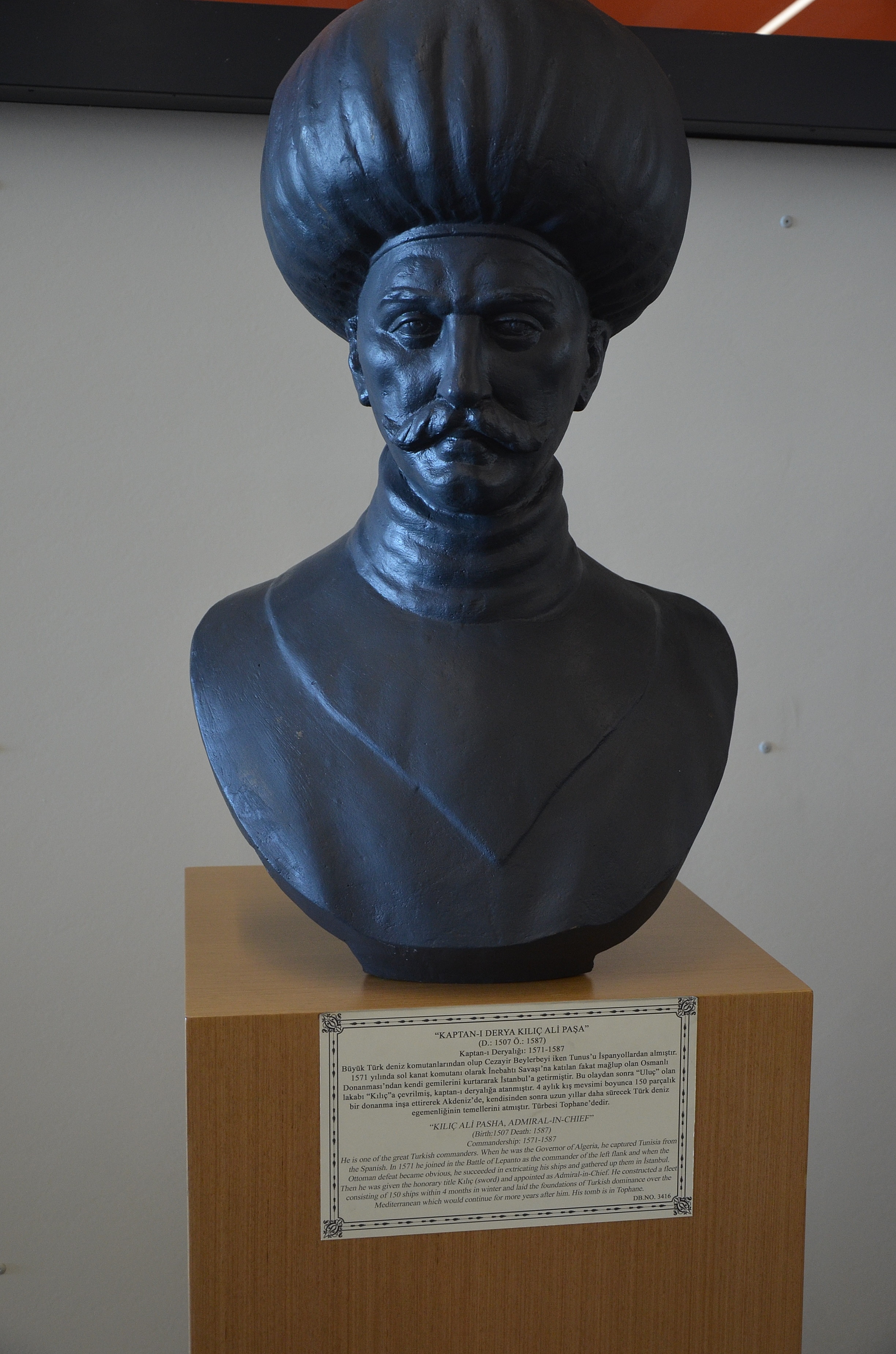 Bust of Kılıç Ali Pasha in the Istanbul Naval Museum